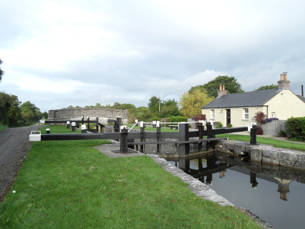 34th Lock and Clonony Bridge on the Grand Canal in Co. Offaly